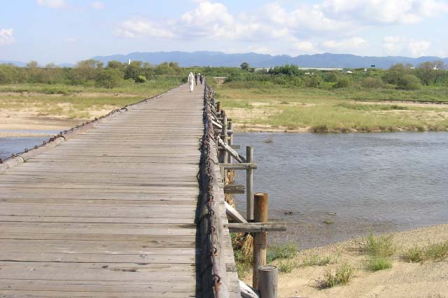 picture of the bridge in Japan